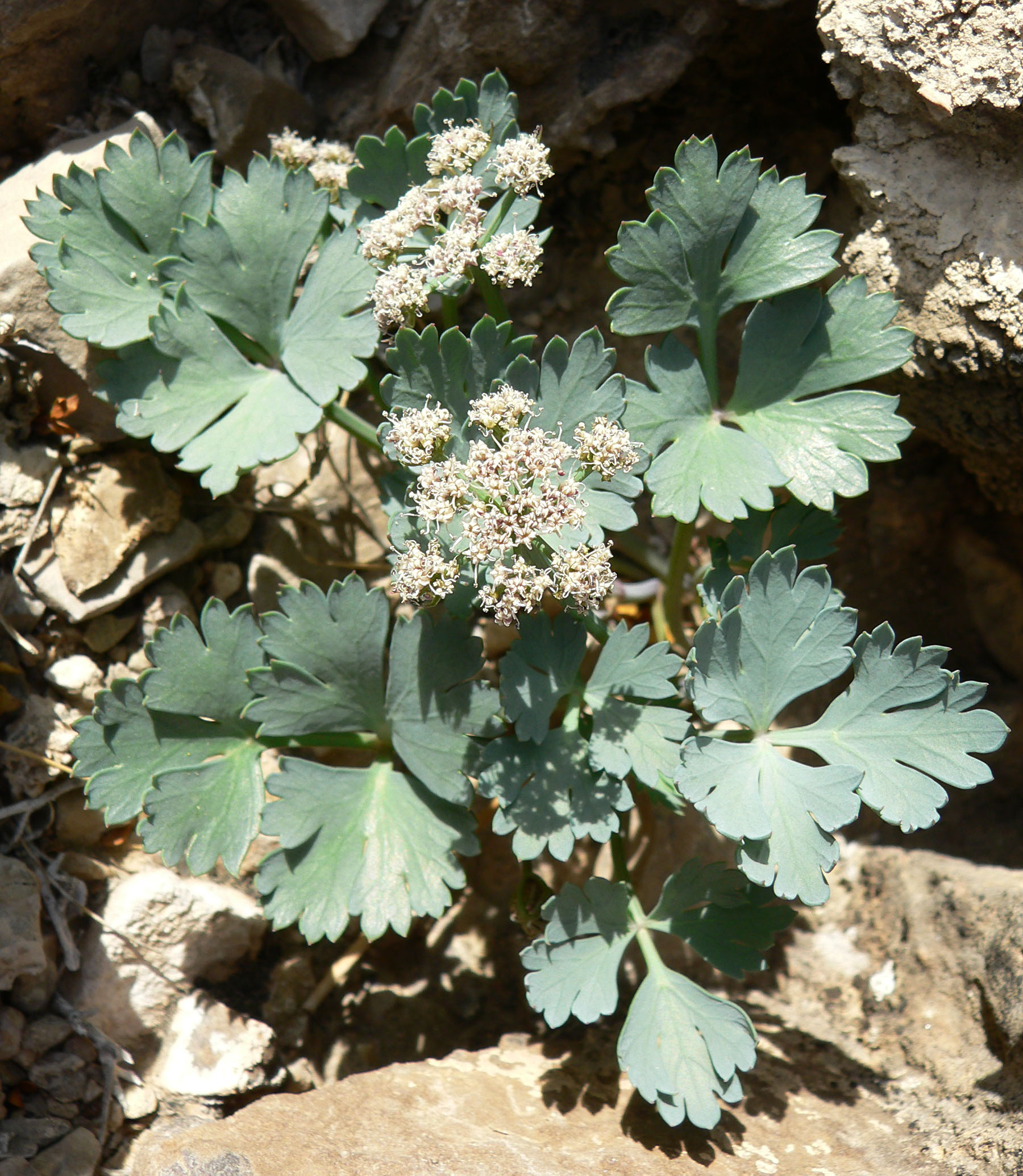 Cymopterus gilmanii in the State Line Hills, 1 km northwest of Primm, Nevada